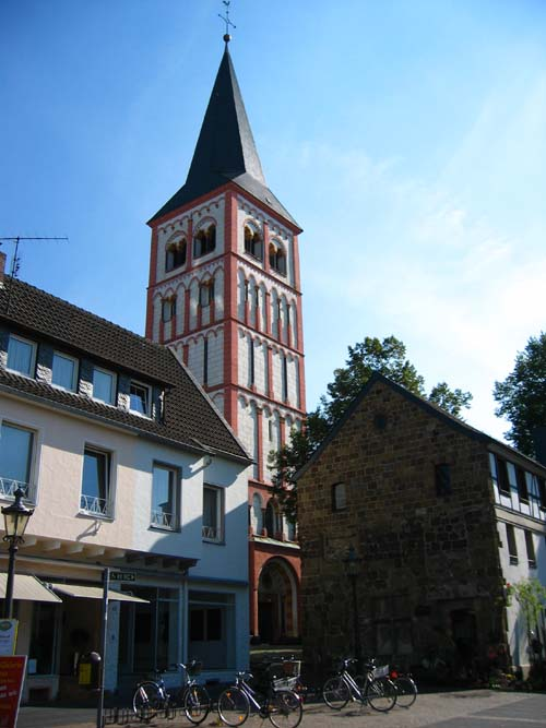 Servatius Church and "Haus zum Winter" (built in 1220) in Siegburg, Germany